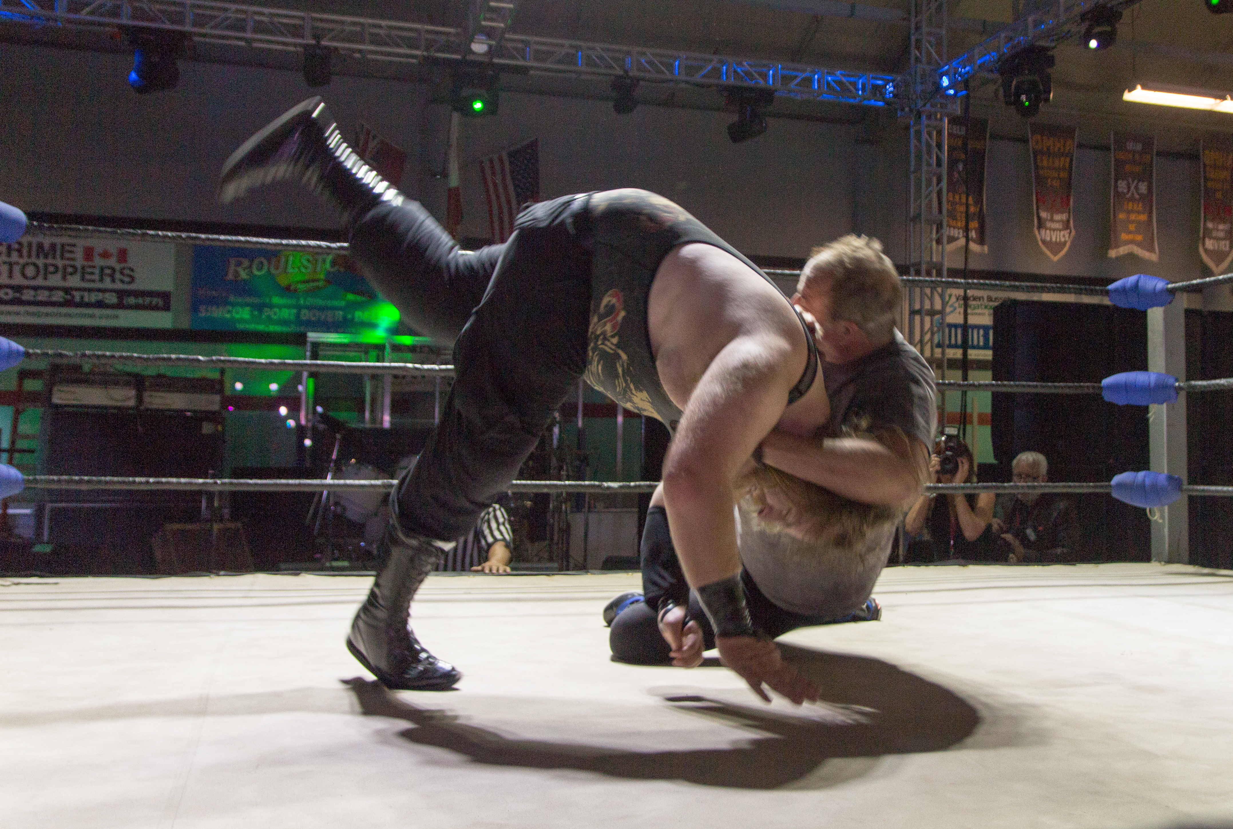 Jake "The Snake" Roberts (right) executing a DDT on John Greed at a CWI show in Delhi, ON